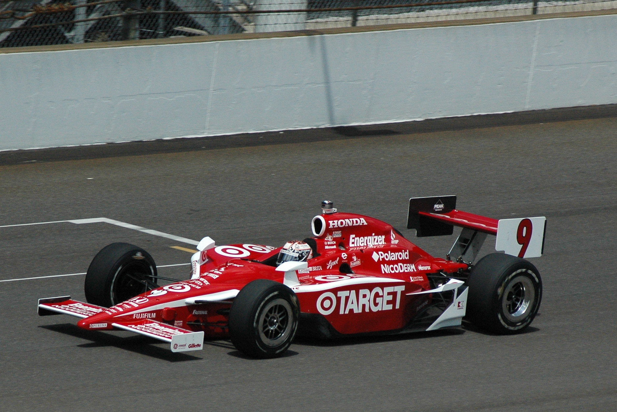 Scott Dixon at Indianapolis 500 practice.